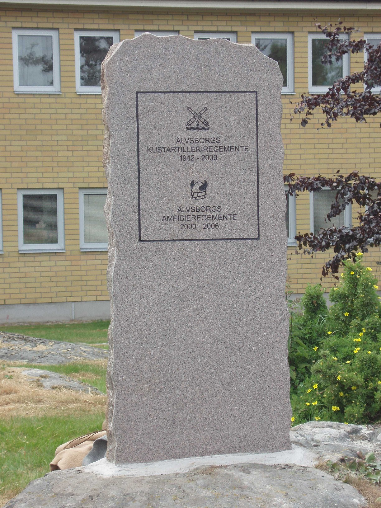 KA4/Amf4 memorial immediately after unveiling 2006-06-21.